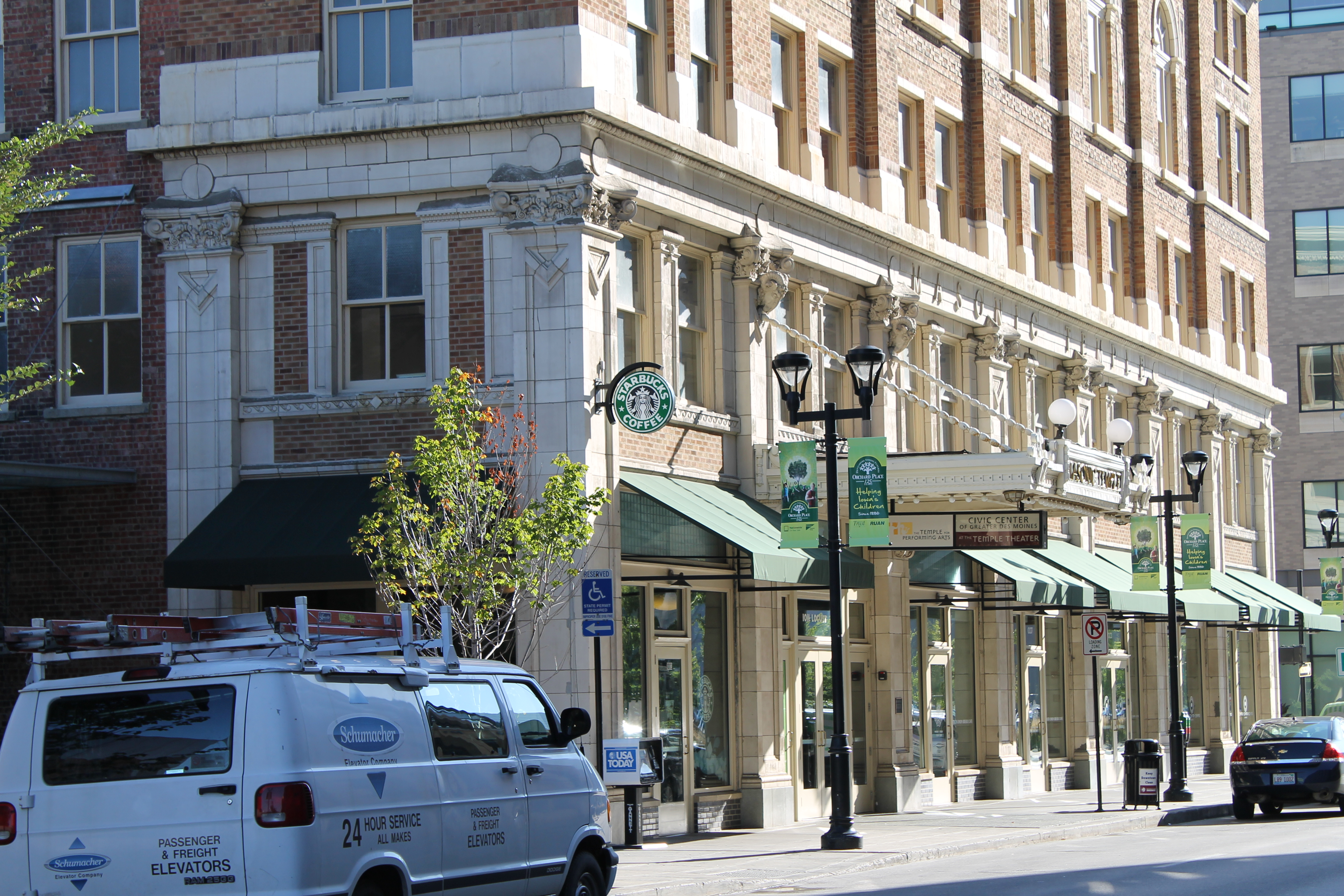 The Temple for Performing Arts Building seperates the Downtown Core District from the Western Gateway District in Downtown Des Moines.